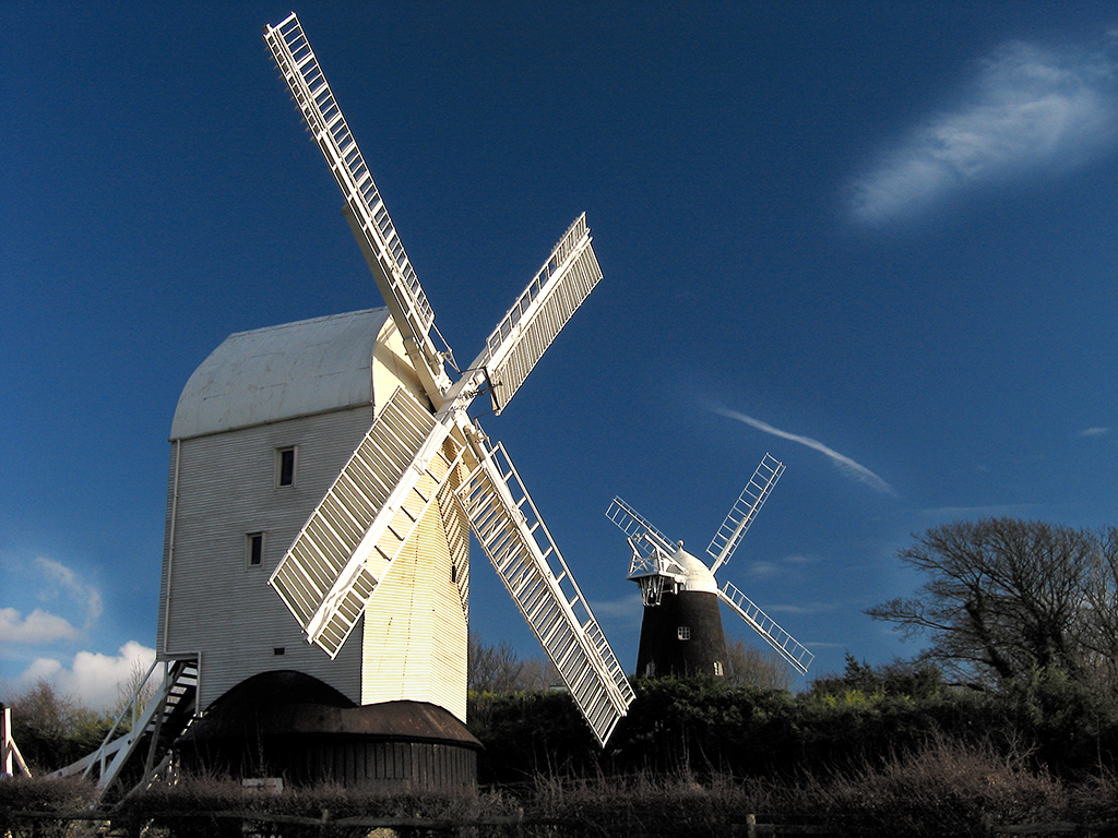 Description:"The Jack and Jill Windmills" aka Clayton Windmills in Sussex, England. Jack is Black. They are supposed to be the source of the nursery rhyme: Jack and Jill (song) went up the hill to fetch a pale of water.....etc. Jill is opened to the public on occasional Sundays and is well worth a visit. Image taken by:david.nikonvscanon